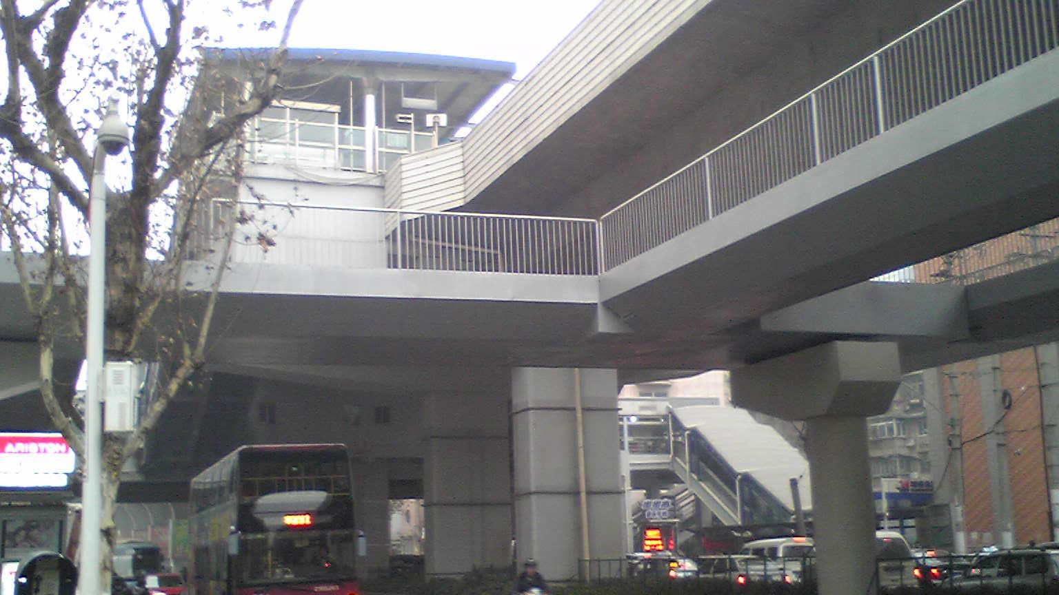 Wuhan Metro Line 1 Lijibeilu Station